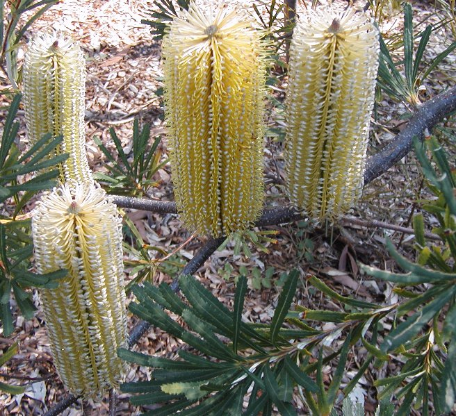 Banksia spinulosa cunninghamii 'lemon glow' - Illawarra Grevillea Park April 2005 Photo Cas Liber